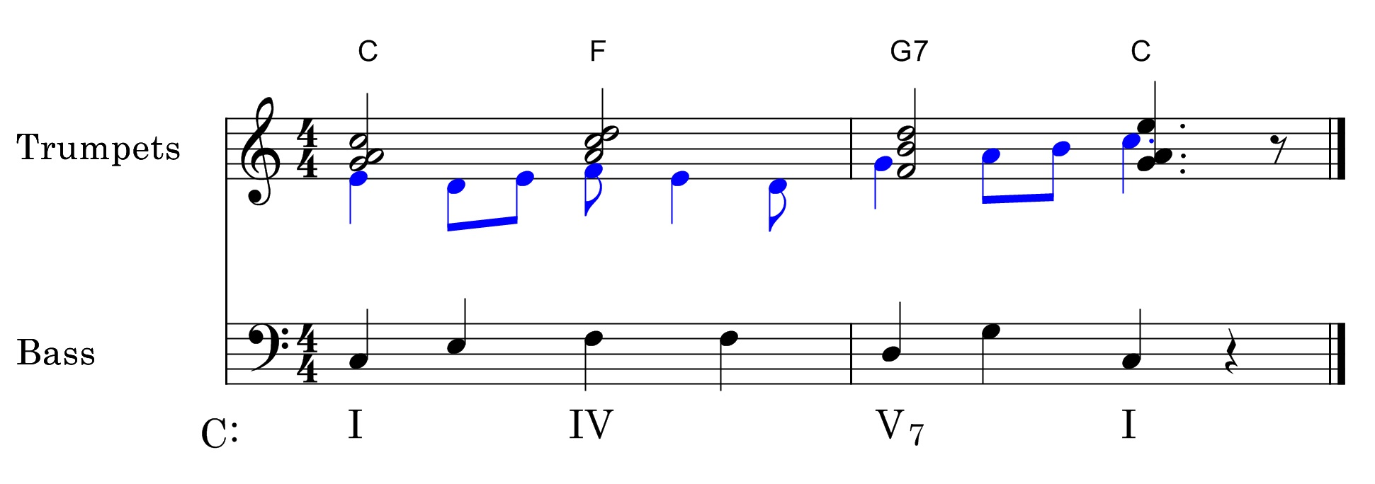 A bottom part proceeding independently from the section destroys the effect of four voice sectional harmony.